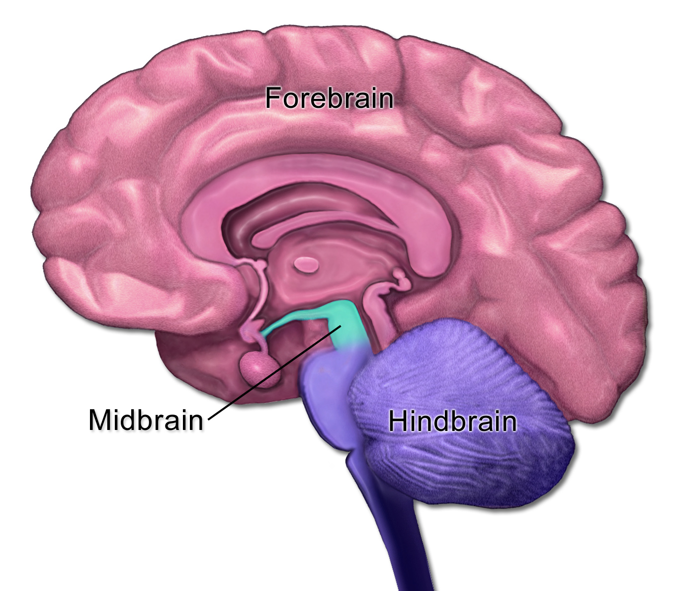 Brain Anatomy - Mid-Fore-HindBrain. Animation in the reference.[1]